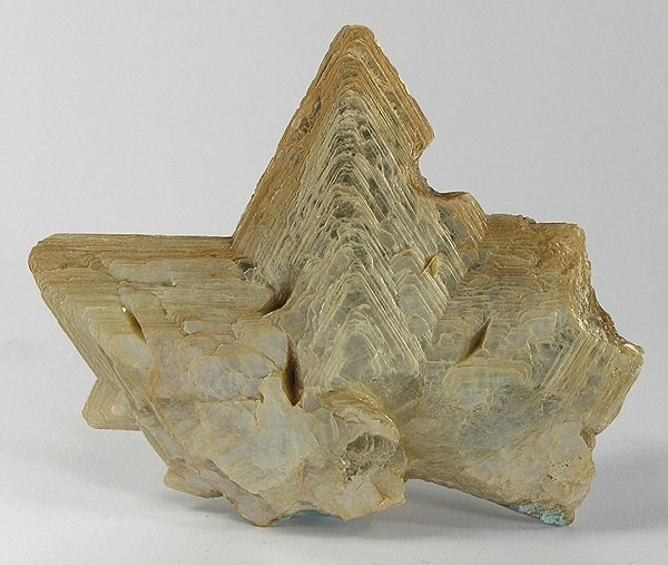 Muscovite Locality: Divino das Laranjeiras, Doce valley, Minas Gerais, Southeast Region, Brazil (Locality at ) Size: 10.3 x 8.6 x 2.4 cm. This amazing specimen gives ample evidence as to why this variety of muscovite mica is called "star" muscovite. The thin layers grow epitaxially upon one another, each a bit smaller than the underlying one. It has a beautiful silvery shimmer to it.